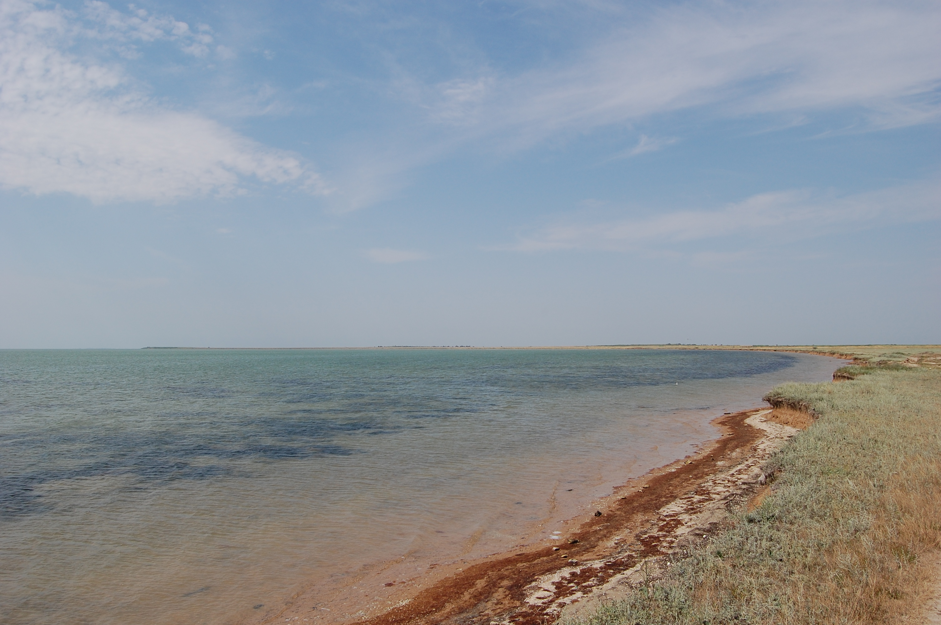 Syvash beach in Strilkove, Kherson Oblast, Ukraine